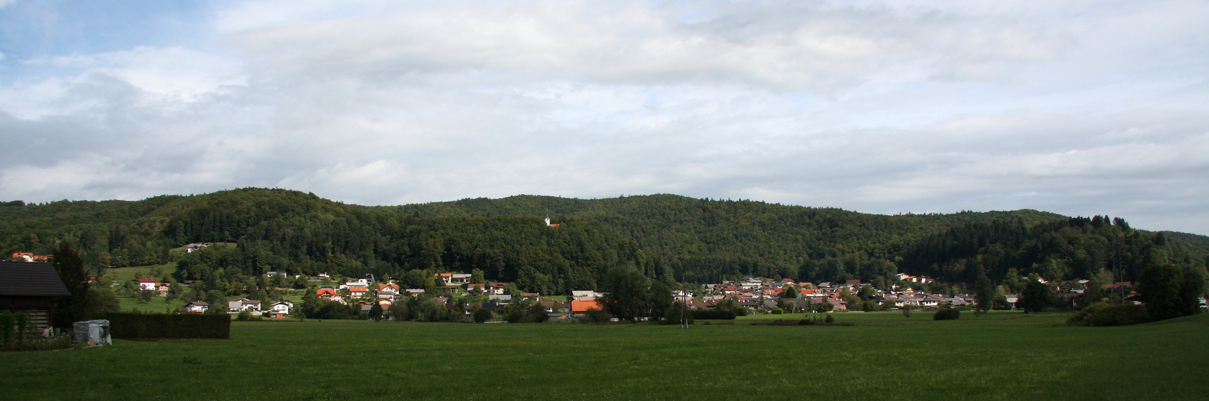 Dragomer, Slovenia, view from the main road Ljubljana-Vrhnika